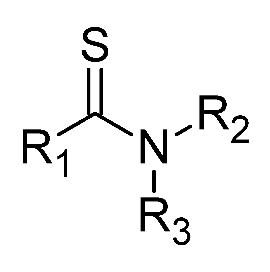 Description: General structure of thioamides. Source = Selfmade. Date = 30 Sep 2006. , updated by Rifleman 82 06:07, 5 February 2007 (UTC) Made with ChemDraw.